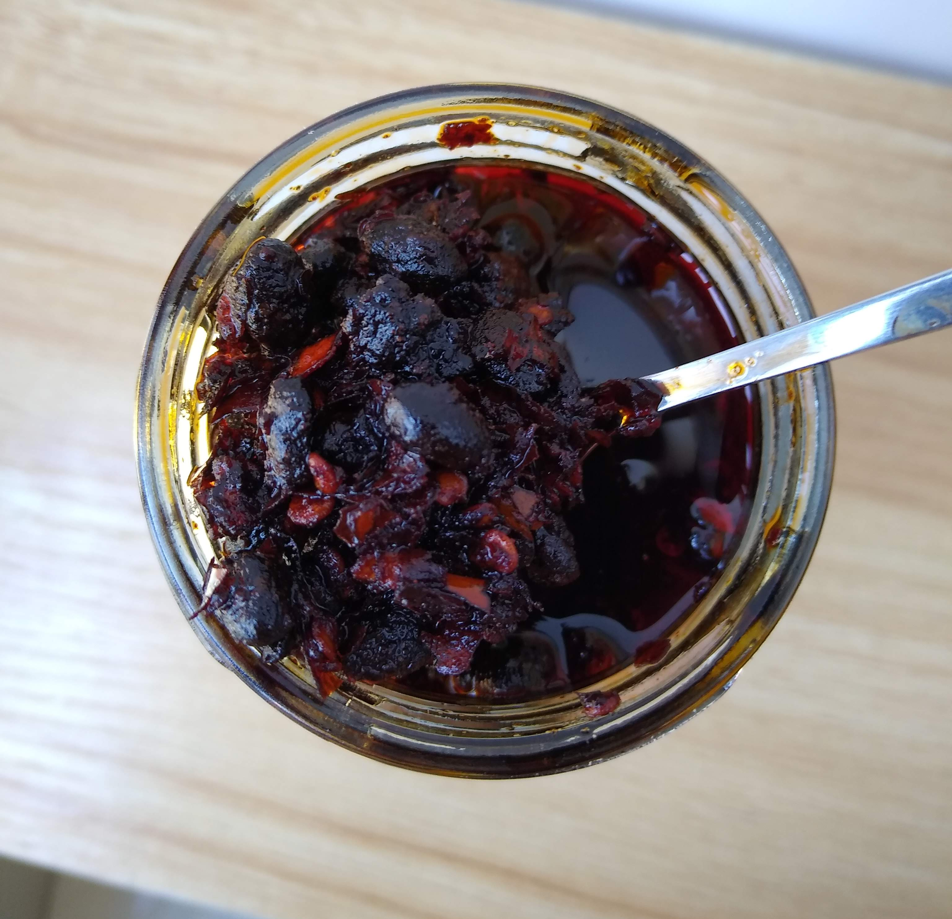 Laoganma, a popular sauce in China. Oil, chili pepper, and fermented soybeans.